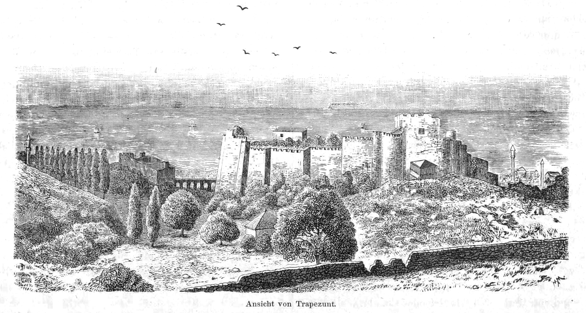 From 'Reise von Trapezunt durch die nördliche Hälfte Klein-Asiens nach Scutari im Herbst 1858. Mit einer Karte von A. Petermann' (1860)